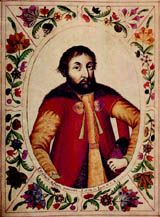 The Georgian king Erekle I